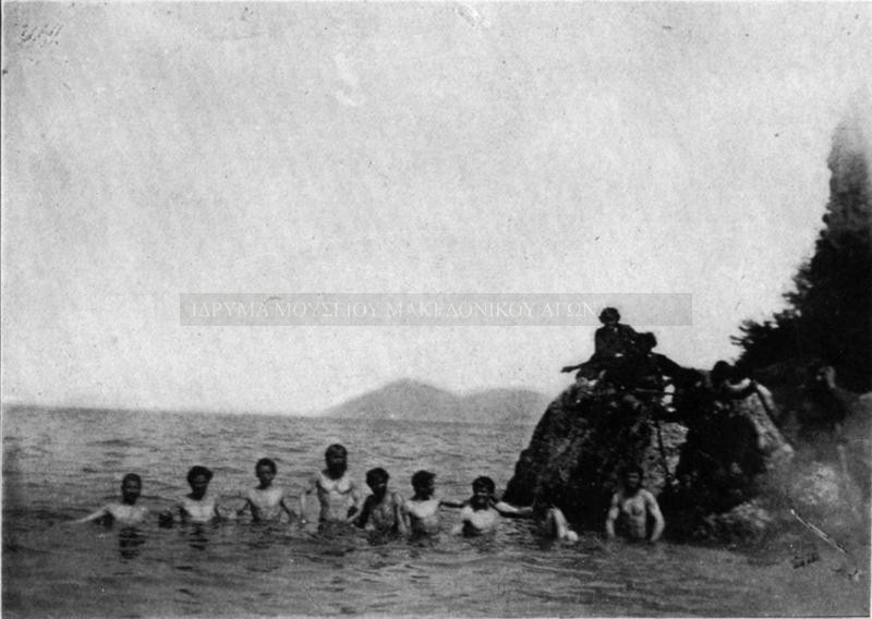 Albert Sonichsen with IMARO members, taking bath in Prespa Lake, Macedonia